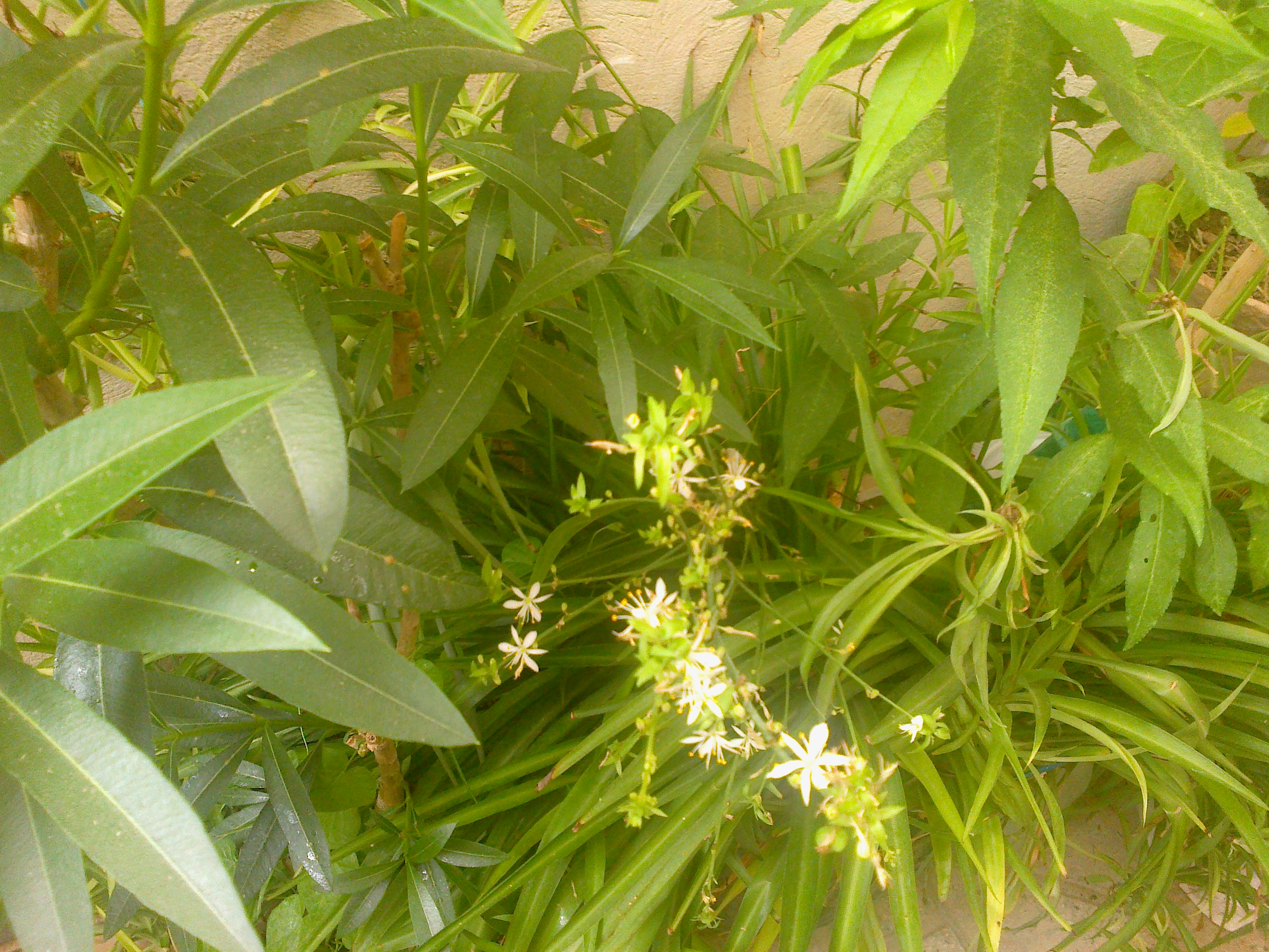 Not similar to Serratula but seemingly is related. It is called Wheat flower in Iran.